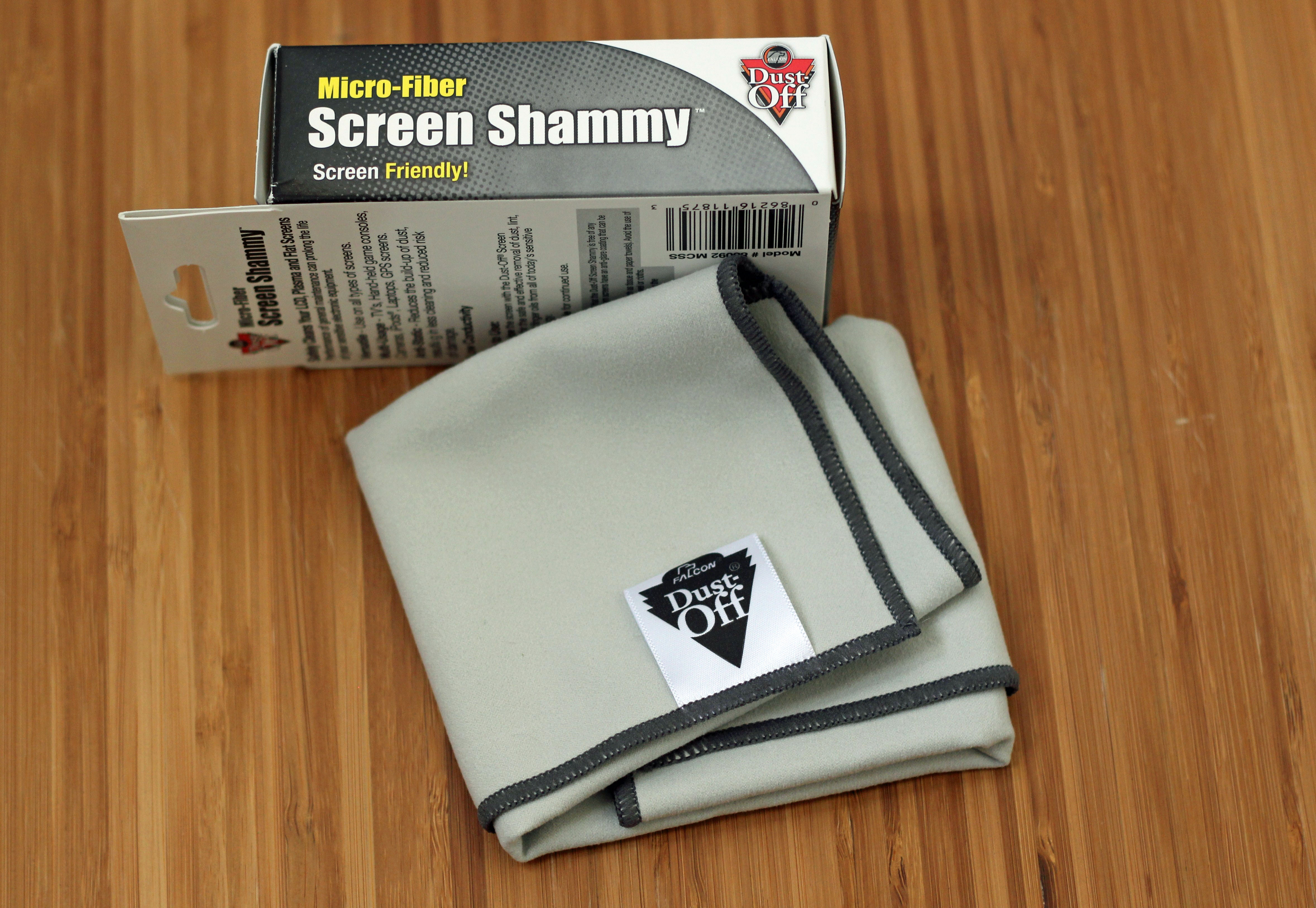 Dust-Off Micro-Fiber Screen Shammy for cleaning computer screens, camera lenses, etc.